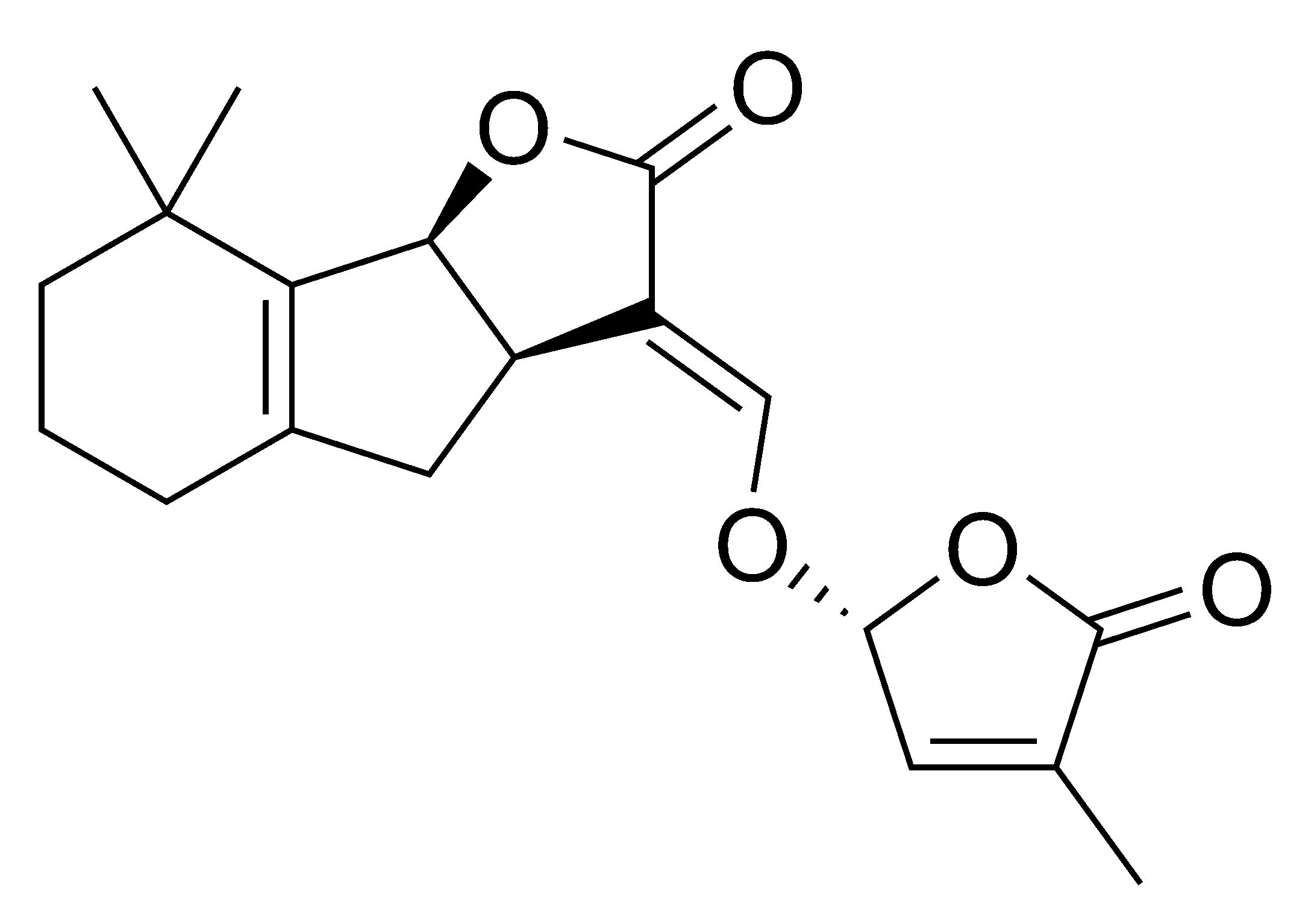 Chemical structure of 5-deoxystrigol, a strigolactone